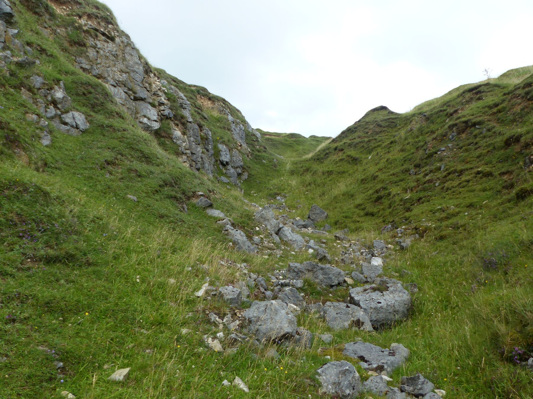 Lead-mining remains near Tideswell, Derbyshire. A scheduled monument.